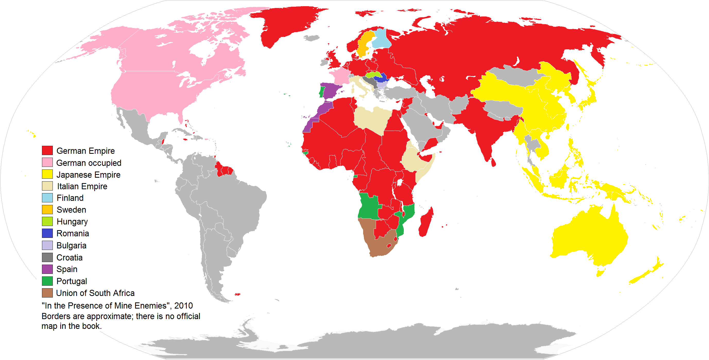 The world in 2010, as depicted in the alternate history novel In the Presence of Mine Enemies, by Harry Turtledove. The map is unofficial and based on descriptions and on real borders during WW2. "The teacher pulled down a big map of the world that hung above the blackboard. The Germanic Empire, shown in the blood-red of the flag, stretched from England deep into Siberia and India. Paler red lands showed occupied but not formally annexed: France, the United States, Canada. In the empire's shadow were the little realms of the allied nations: Sweden's gold, Finland's pale blue, the greens of Hungary and Portugal, Romania's dark blue, purple for Spain and Bulgaria, and the yellow of the Italian Empire around the Mediterranean. Africa was mostly red, too, though Portugal, Spain, and Italy kept their colonies on the dark continent and the Aryan-dominated Union of South Africa was another ally, not a conquest. Only the Empire of Japan, with Southeast asia, China, the islands of the Pacific and Indian Ocean, and Australia all shown in yellow, came anywhere close to matching the Germanic Empire in size. The Japanese were strong enough to survive for the time being, but not strong enough to make serious rivals for the Reich." Croatia is mentioned sometimes. This fictional map image could be recreated using vector graphics as an SVG file. This has several advantages; see Commons:Media for cleanup for more information. If an SVG form of this image is available, please upload it and afterwards replace this template with vector version available|new image name . It is recommended to name the SVG file "In the Presence of Mine Enemies.svg" - then the template Vector version available (or Vva) does not need the new image name parameter.